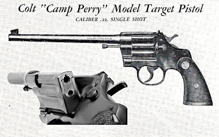 Colt Camp Perry